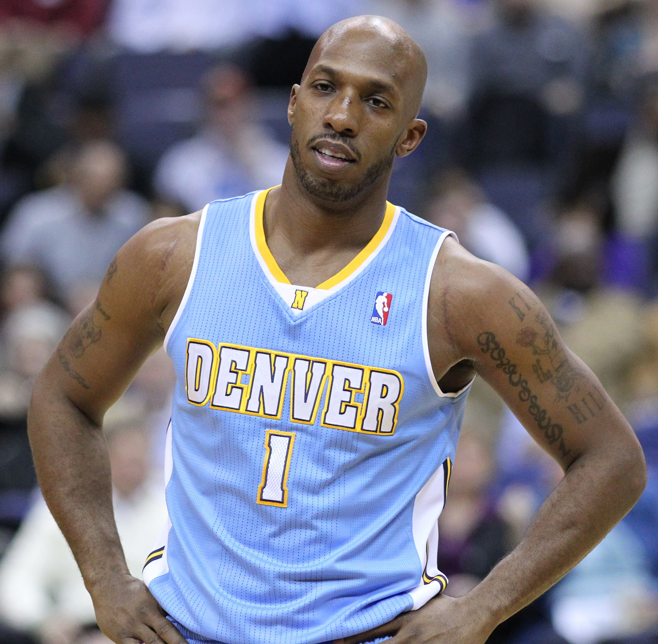 Washington Wizards v/s Denver Nuggets January 25, 2011